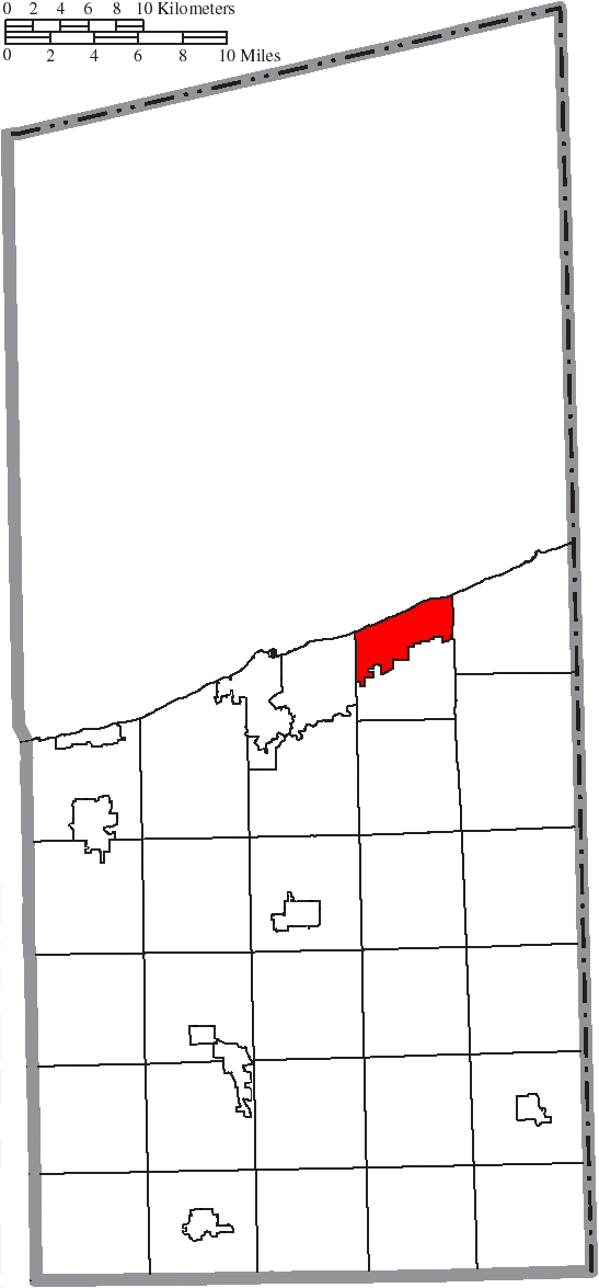 Map of the municipal and township boundaries of Ashtabula County, Ohio, United States, as of the 2000 census, with the location of the village of North Kingsville highlighted. Township borders are shown only in unincorporated areas in order to differentiate incorporated and unincorporated areas more clearly.